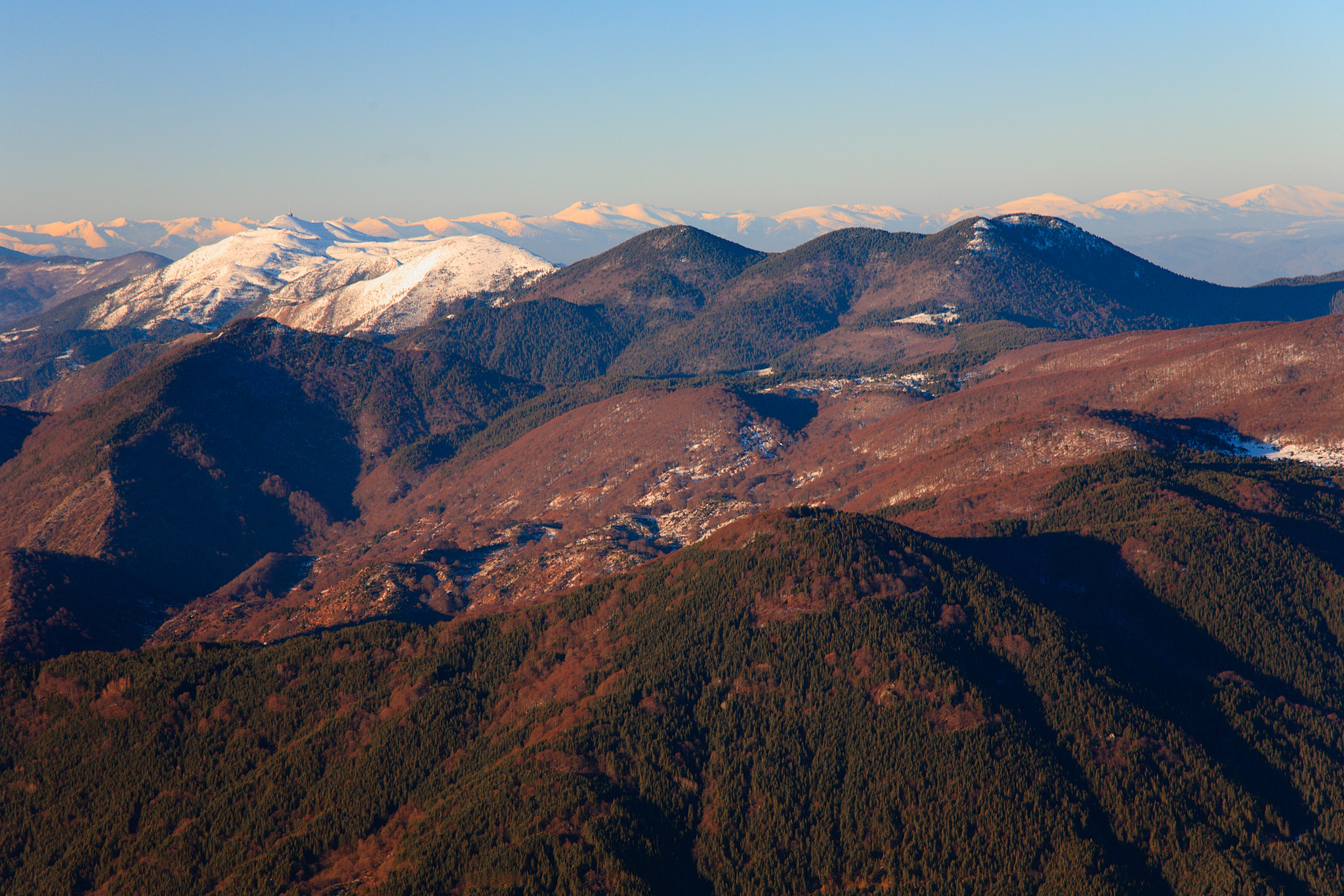 Oreliak, Sveshtnik, Ushite and Motorok summits in Northern Pirin mountains, Bulgaria